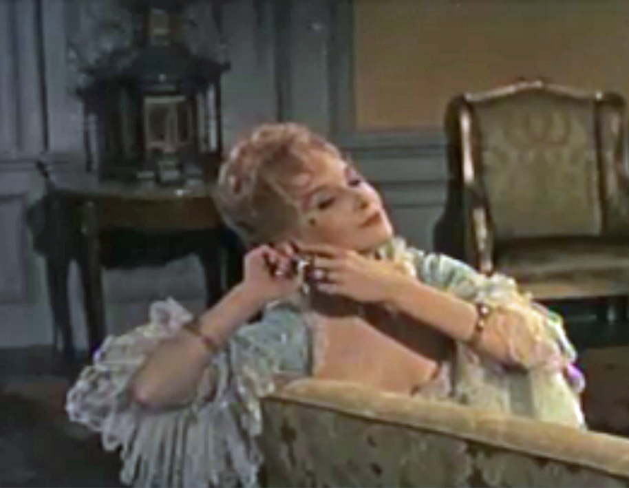 Joan Greenwood in trailer for "Moonfleet" (1955)